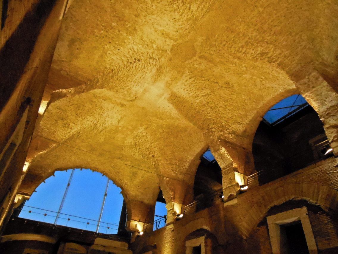 Rome, Trajan's Market, the vault of the "Great Hall"